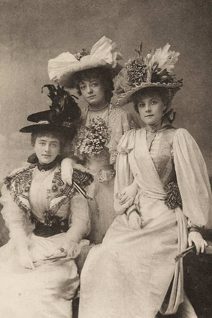 V&A Theatre Museum. A publicity photo for The Geisha, 1896. The actresses shown are Alice Davis (l), Blanche Massey (c) and Hetty Hamer (r)